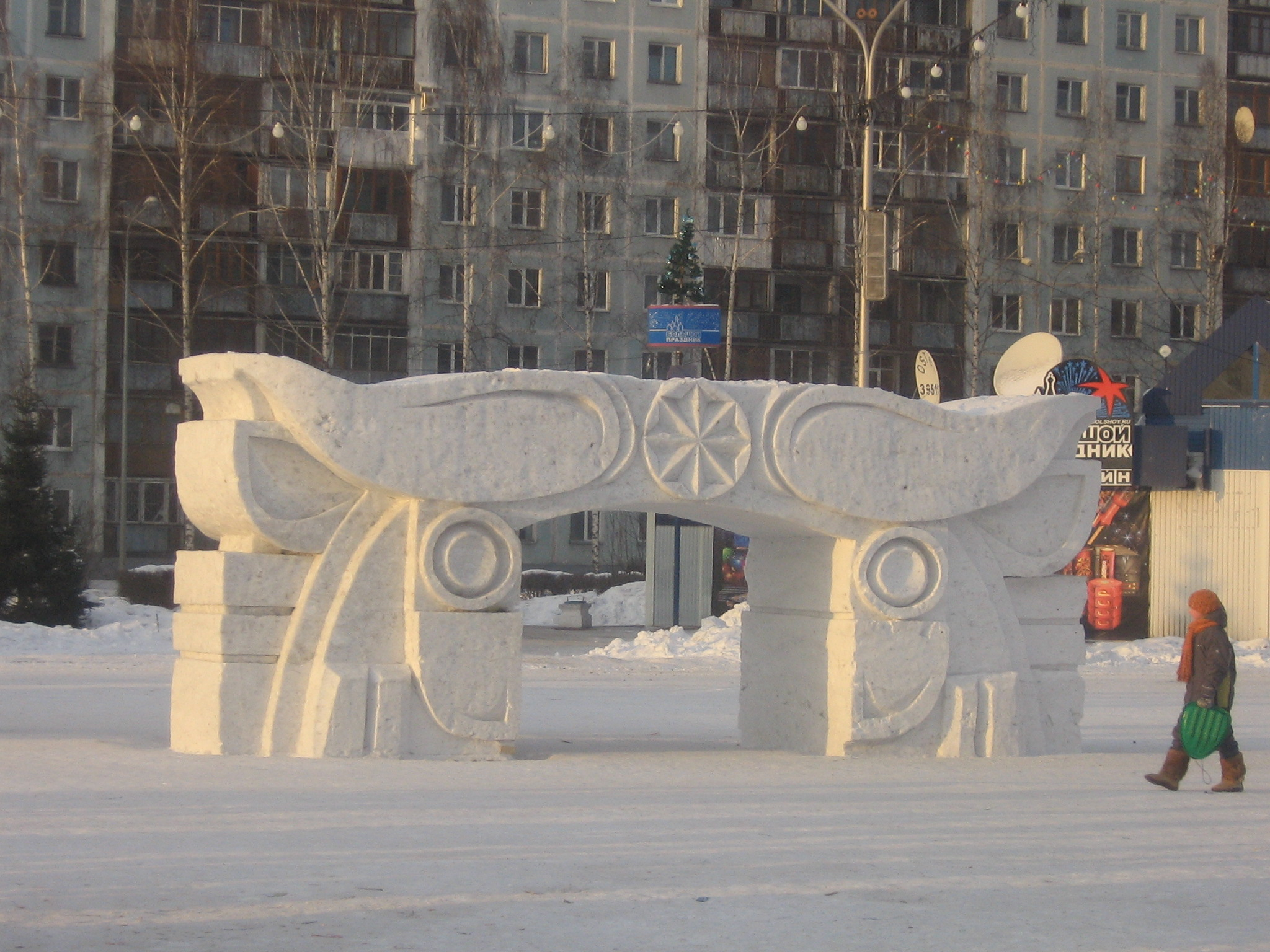 Ice Arch, Popular Events Square, Novokuznetsk (Russia).